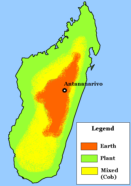 Map showing distribution of predominant construction material type in Madagascar